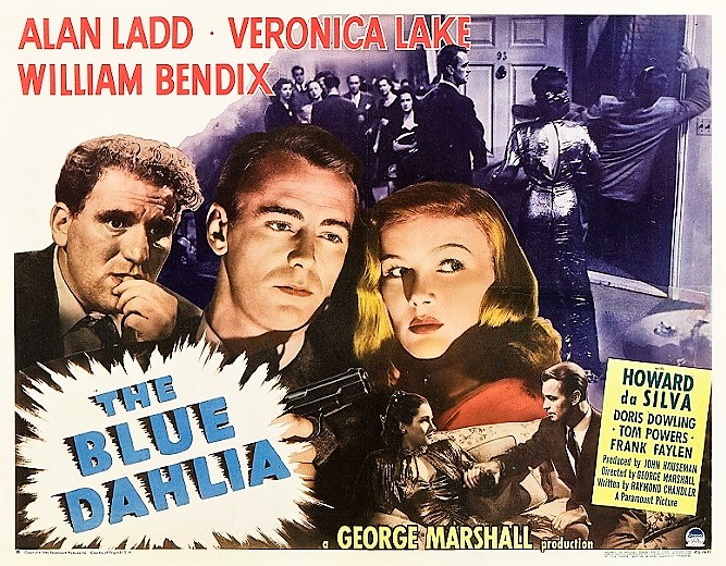 Poster del film The Blue Dahlia (1946)